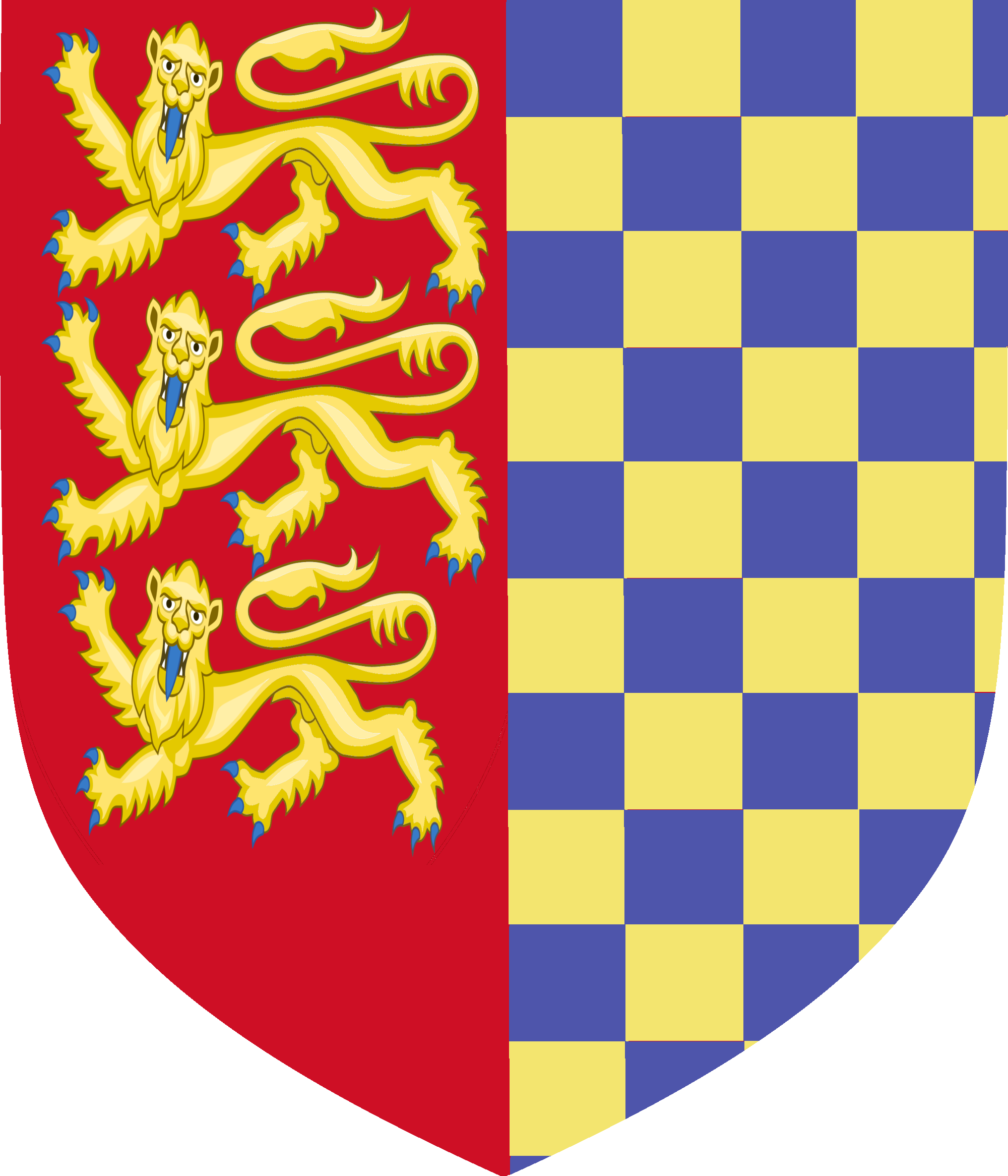 Arms of Stamford Town Council without supporters, crest or motto